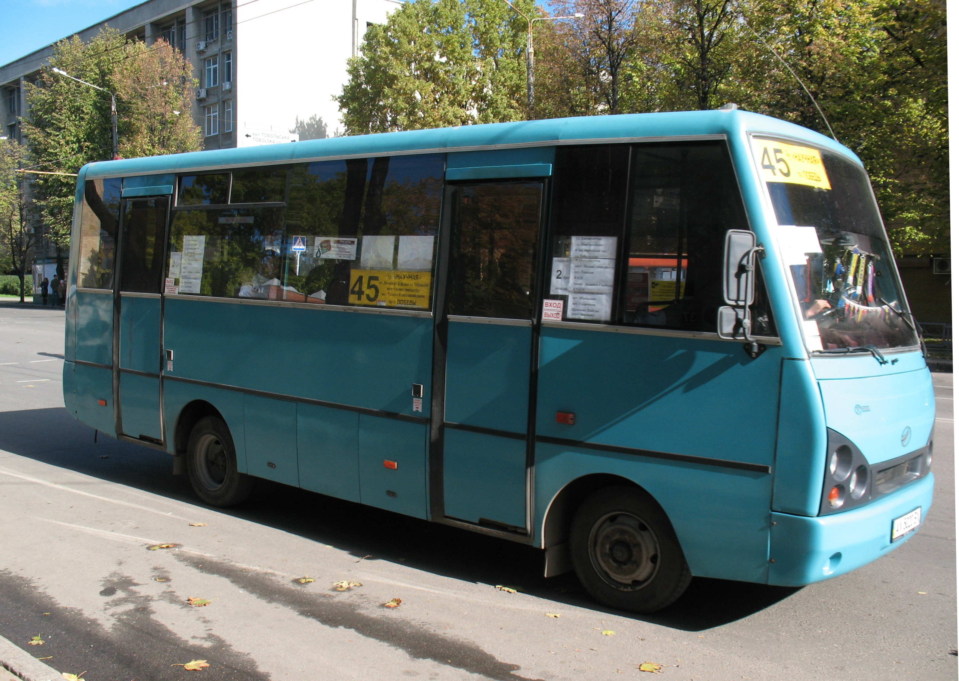 Kharkov City. Kharkov bus TATA #45.